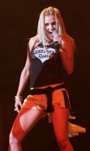 Ashley Roberts performing as part of The Pussycat Dolls at the Tacoma Dome in Washington.